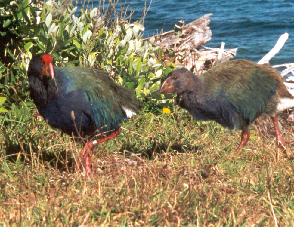 Takahē and chick on Kapiti Island in New Zealand. Taken by Duncan Wright.